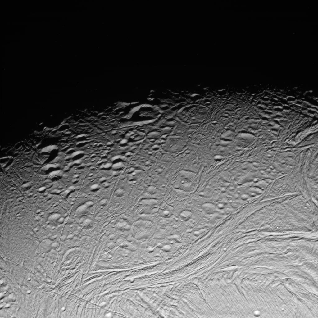 Cassini (NASA/ESA) image of degraded craters on Enceladus